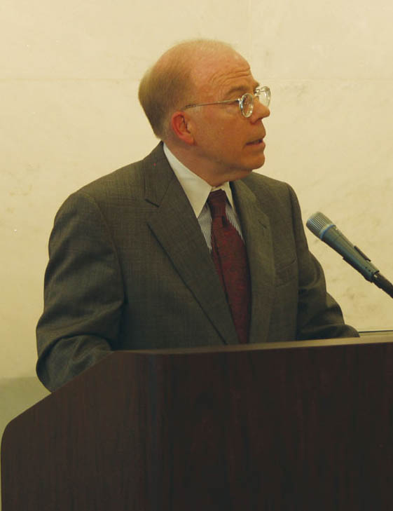 Deputy Director of Central Intelligence John Edward McLaughlin addressed a gathering of Office of Strategic Services (OSS) veterans during a wreath laying ceremony today at CIA Headquarters marking the 60th anniversary of D-Day.